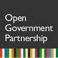 logo of The Open Government Partnership